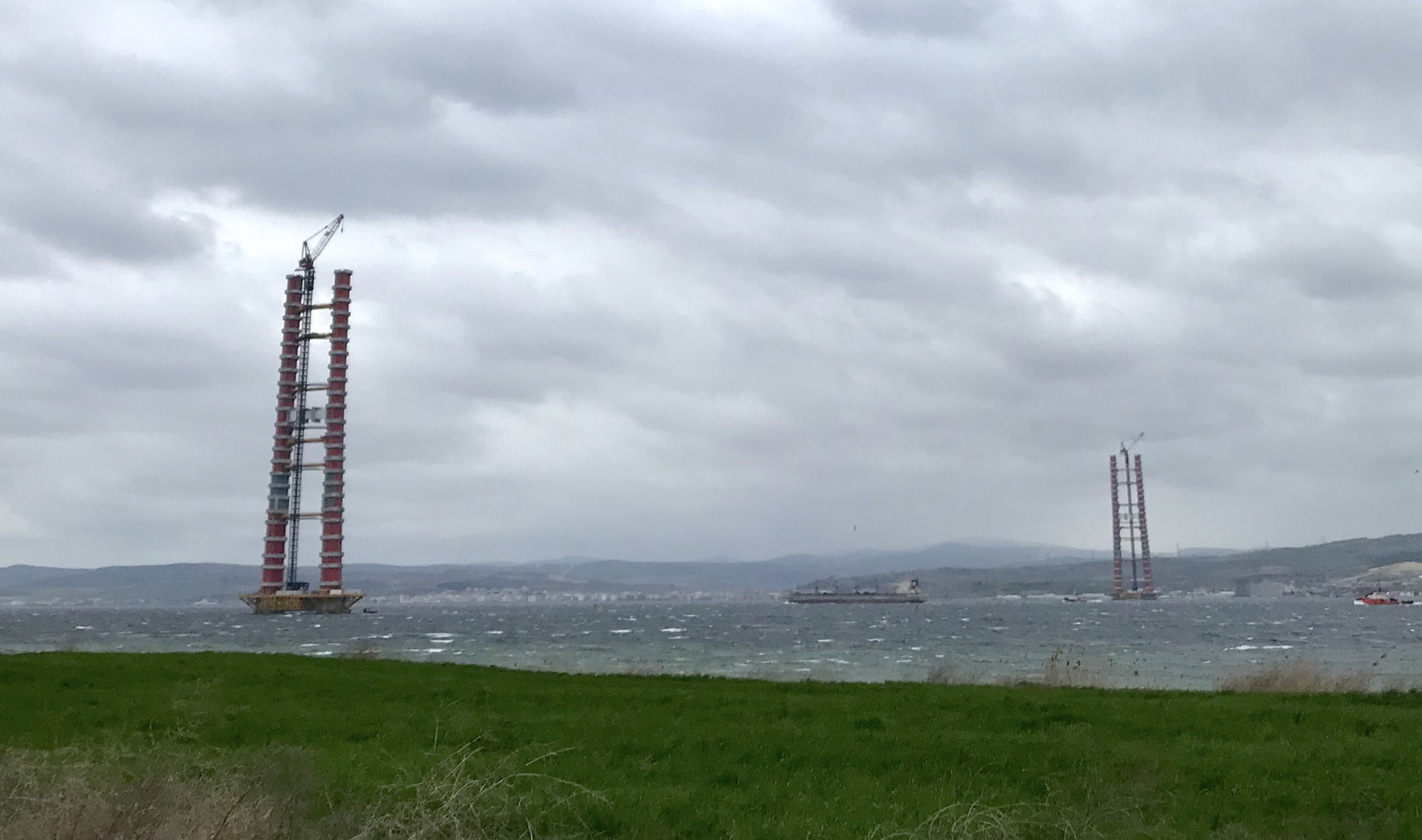 Çanakkale 1915 Bridge construction as of March 2020. View from west to east